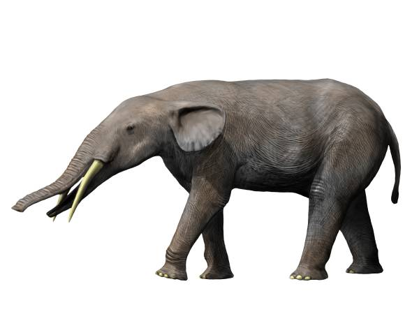 Gomphotherium angustidens.